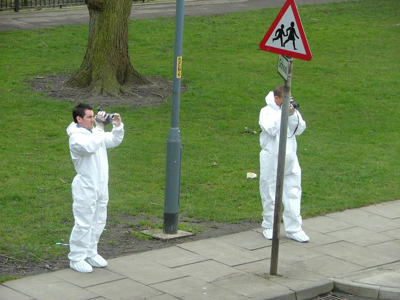 After a violent attack in the house next to our own, the police arrived to document the scene.